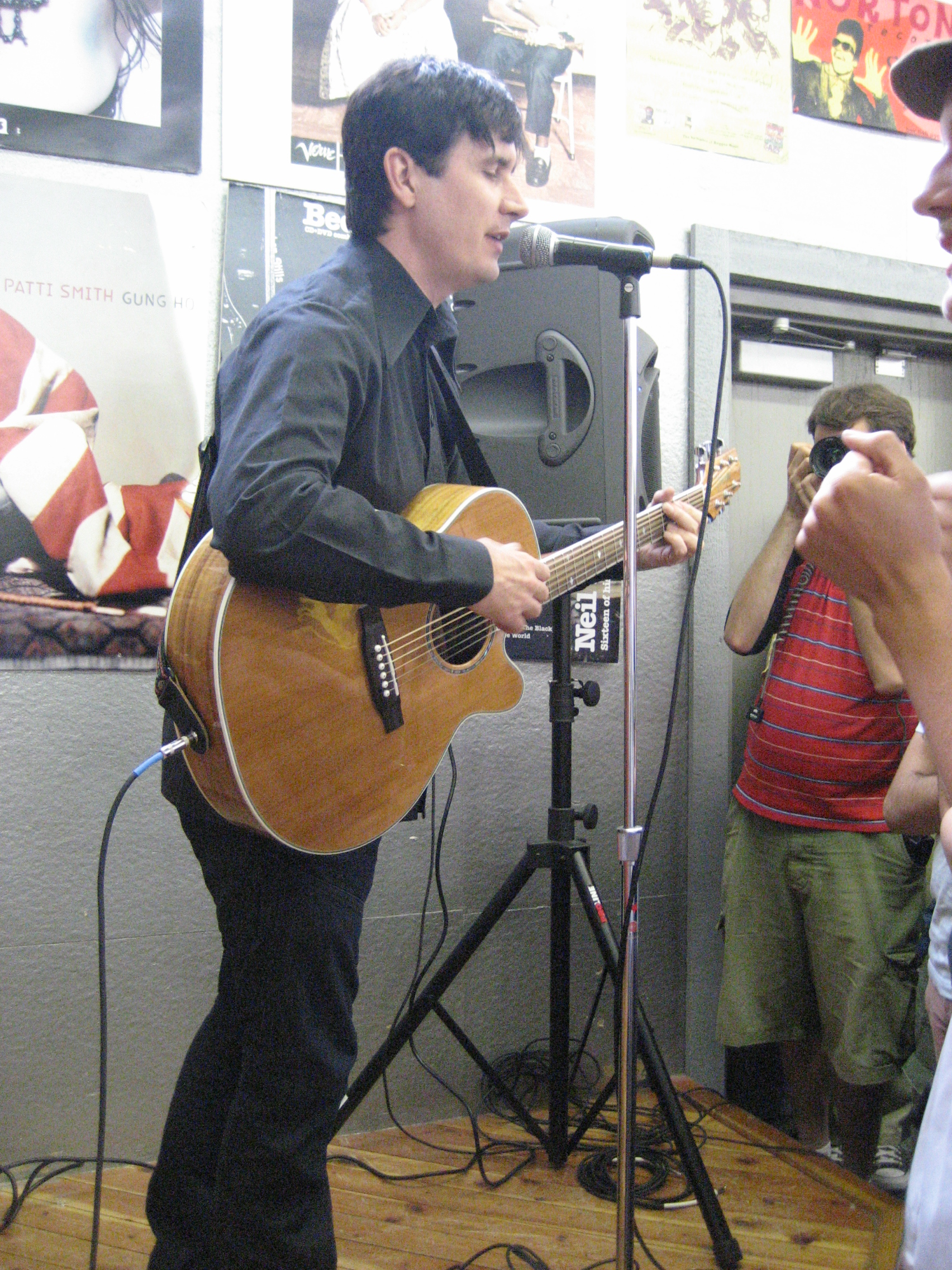 John Darnielle on July 22, 2007, in Claremont, California